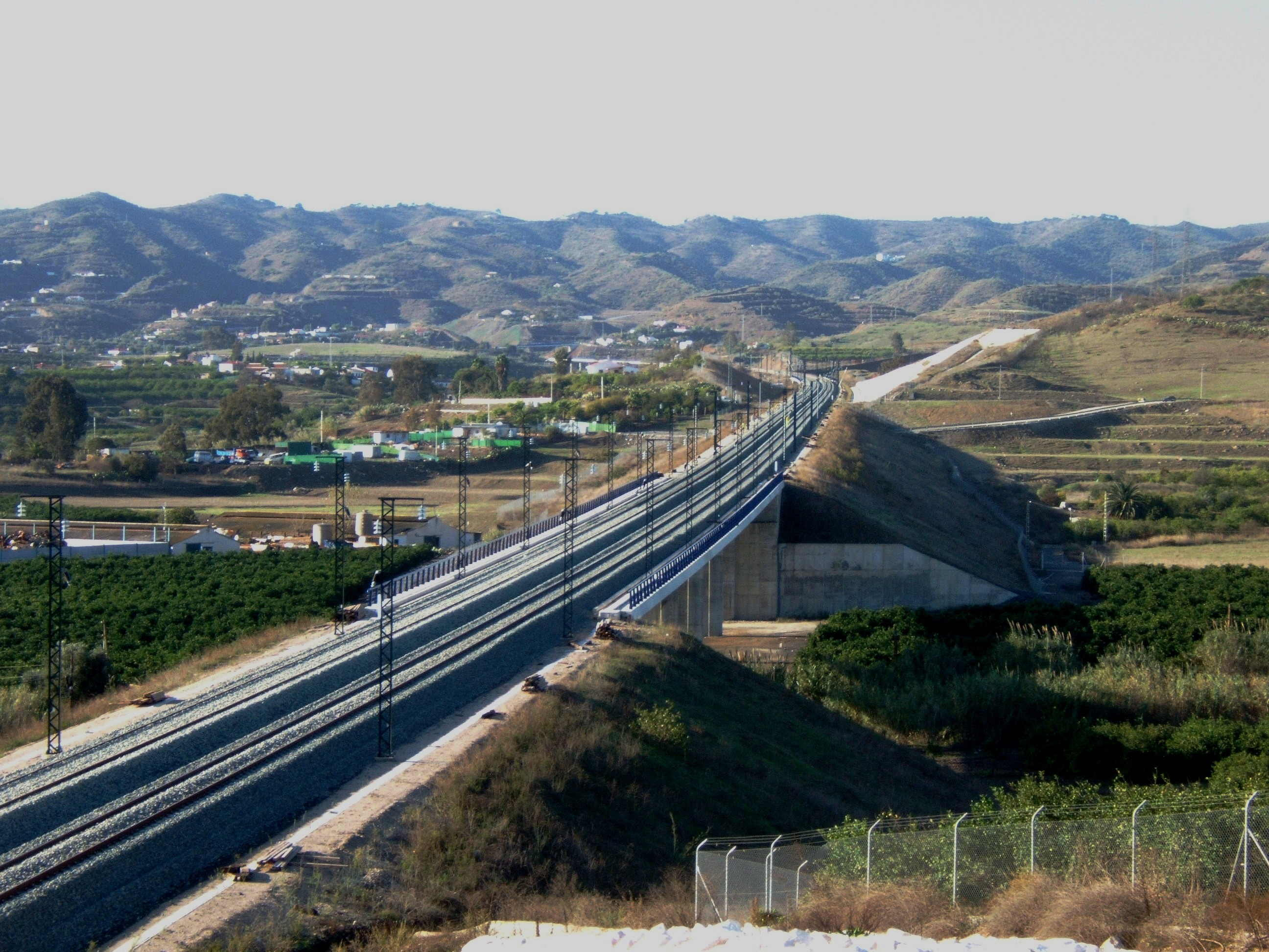 HSL Malaga, view taken on the road toward 'El Sexmo', with view toward the mountains. Is close to Malaga